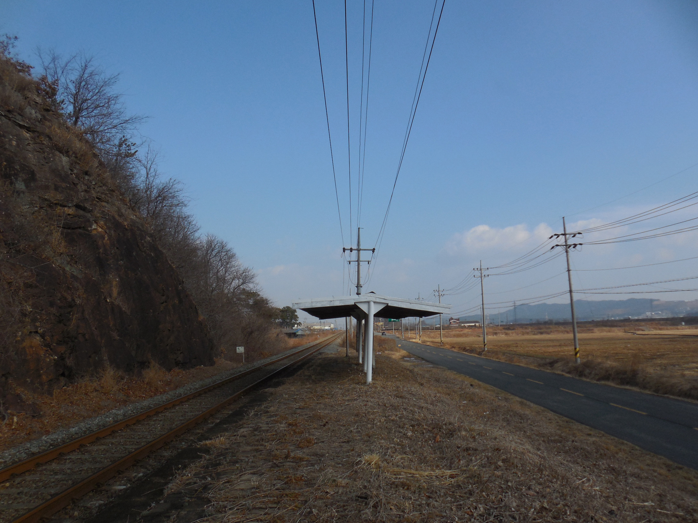 Platform of Korail Donghae Line Cheongnyeong Station.